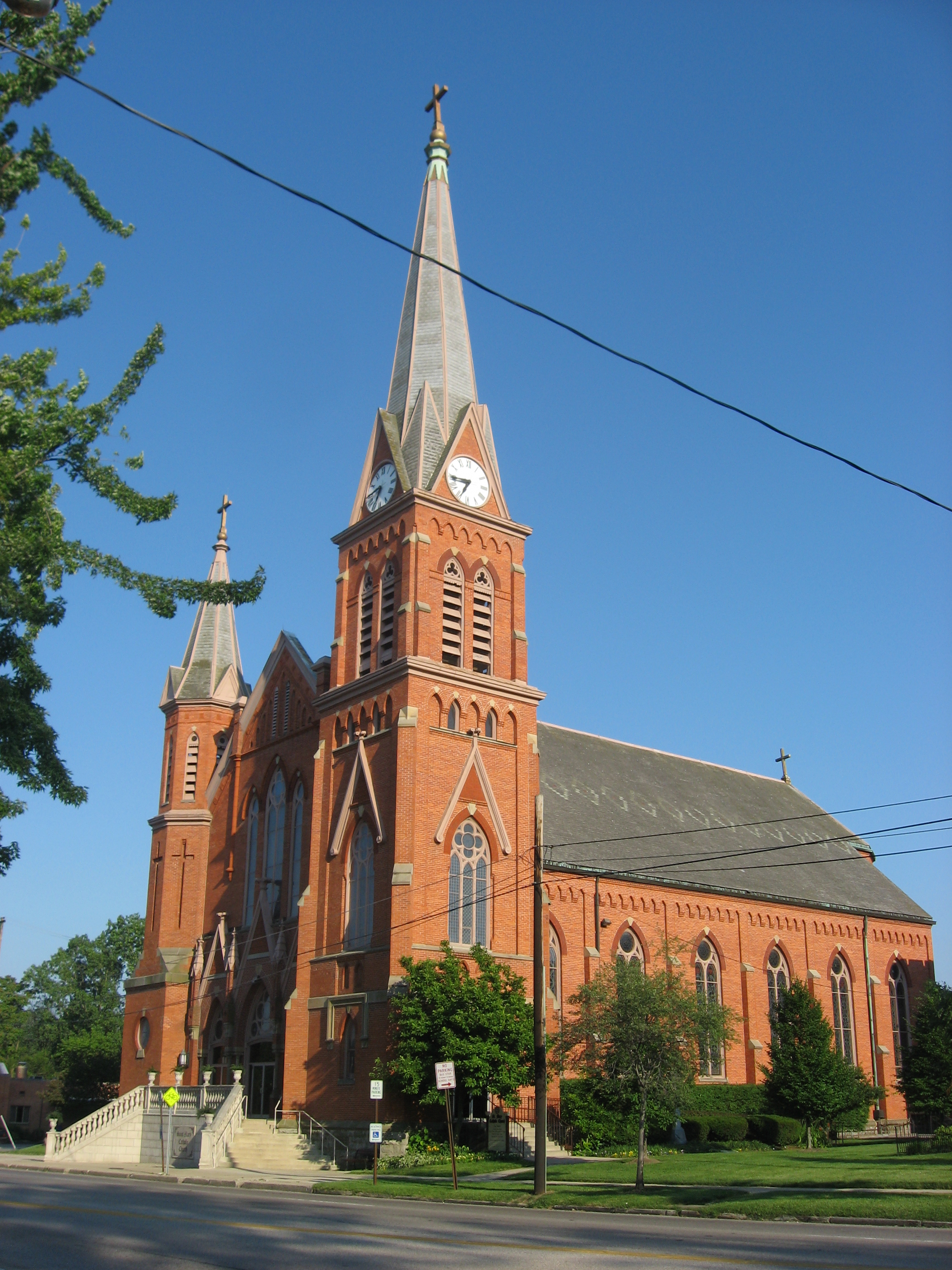 Front and side of St. Mary's Catholic Church, located at 82 E. William Street (U.S. Route 36) in downtown Delaware, Ohio, United States. Built in 1886, the church and its rectory are listed together on the National Register of Historic Places.